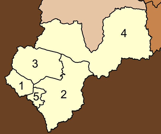 Map of Betong district, Yala province, Thailand, with the communes (tambon) numbered. Betong (เบตง) Ya Rom (ยะรม) Ta No Mae Ro (ตาเนาะแมเราะ) Ai Yoe Weng (อัยเยอร์เวง) Than Nam Thip (ธารน้ำทิพย์)